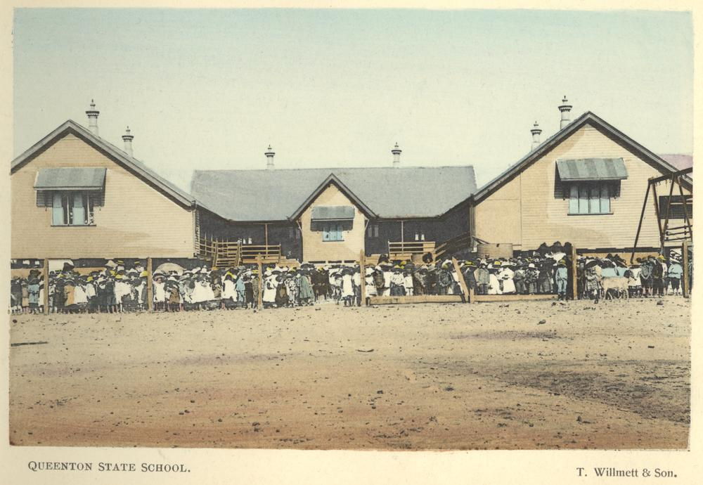 Queenton State School and students, Charters Towers, 1904. This is a photograph taken from a small album of hand coloured photographs about Charters Towers, including some mines, published by T. Willmett & Son, Charters Towers in 1904.